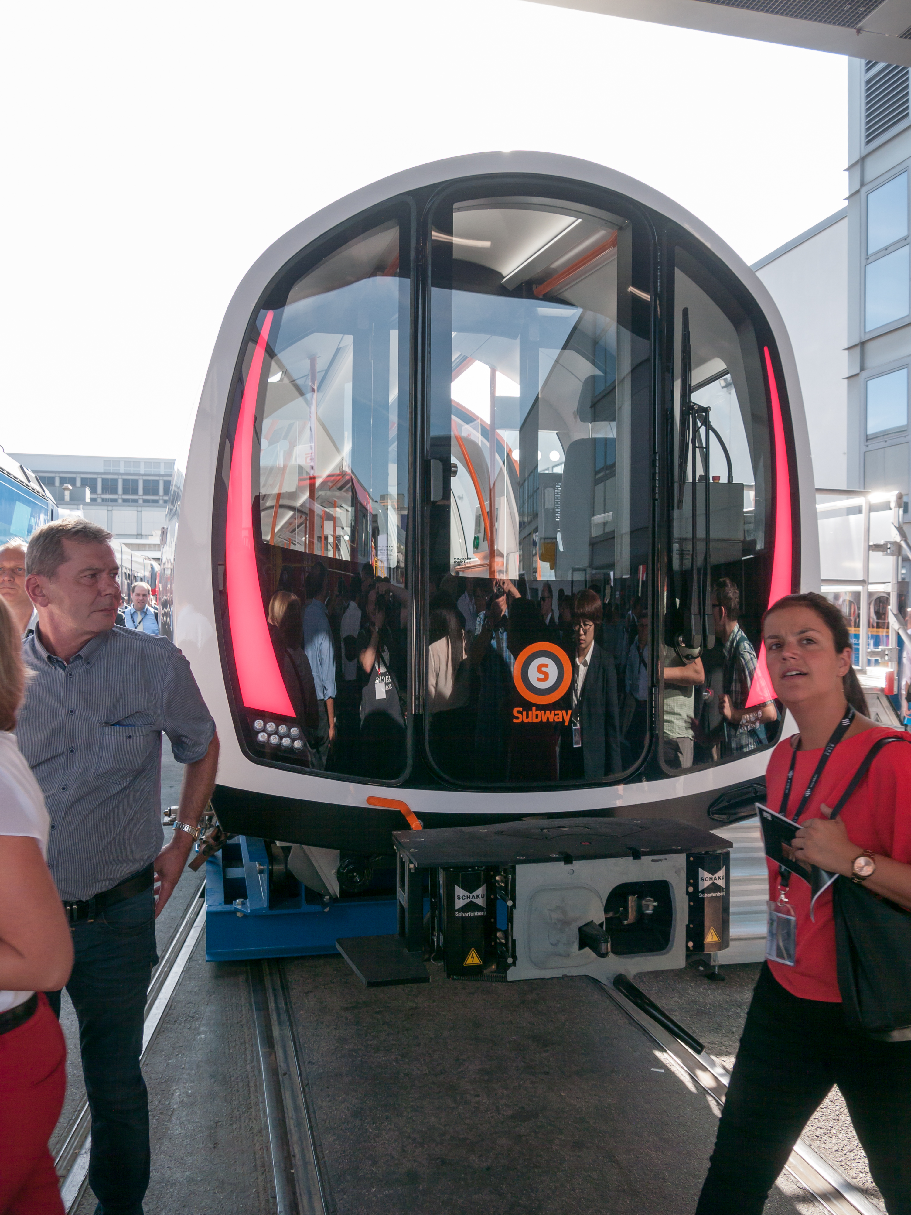 New Glasgow Subway train, produced by Stadler, at Innotrans 2018 in Berlin, Germany